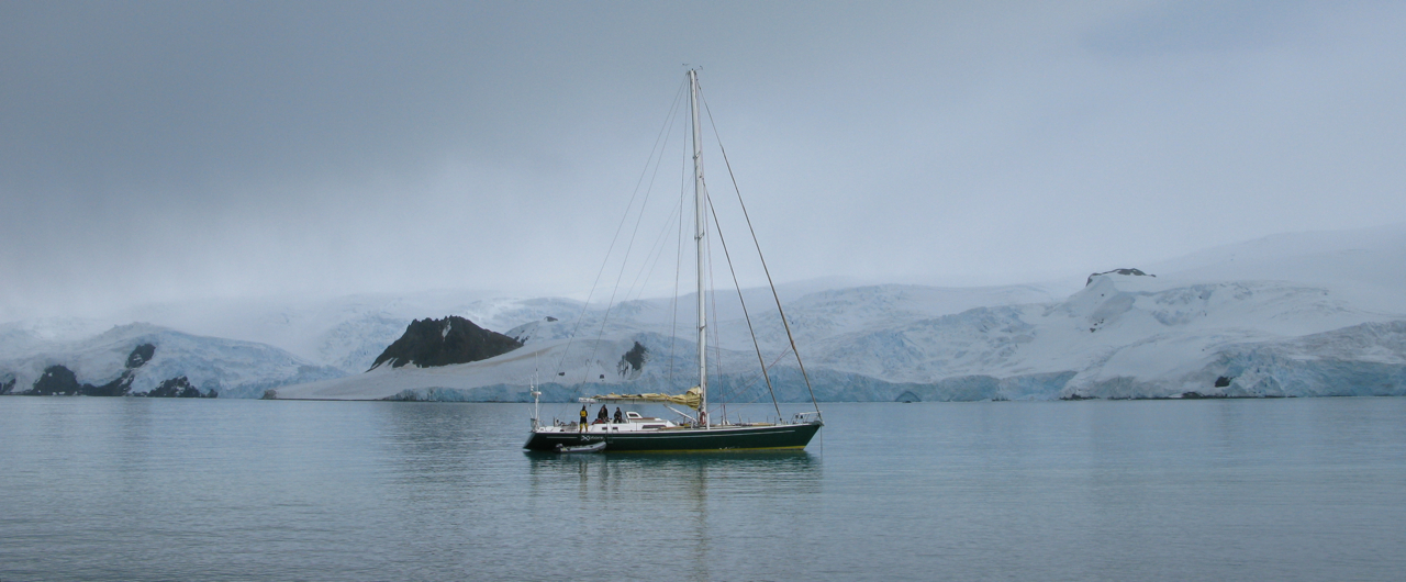 Challenge 67 (Xplore Expeditions) in Antarctic